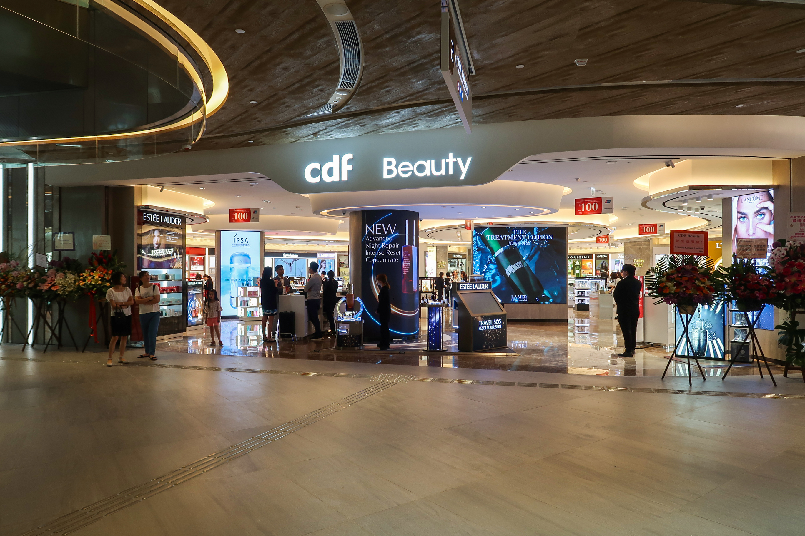 cdf beauty in Citygate Outlet